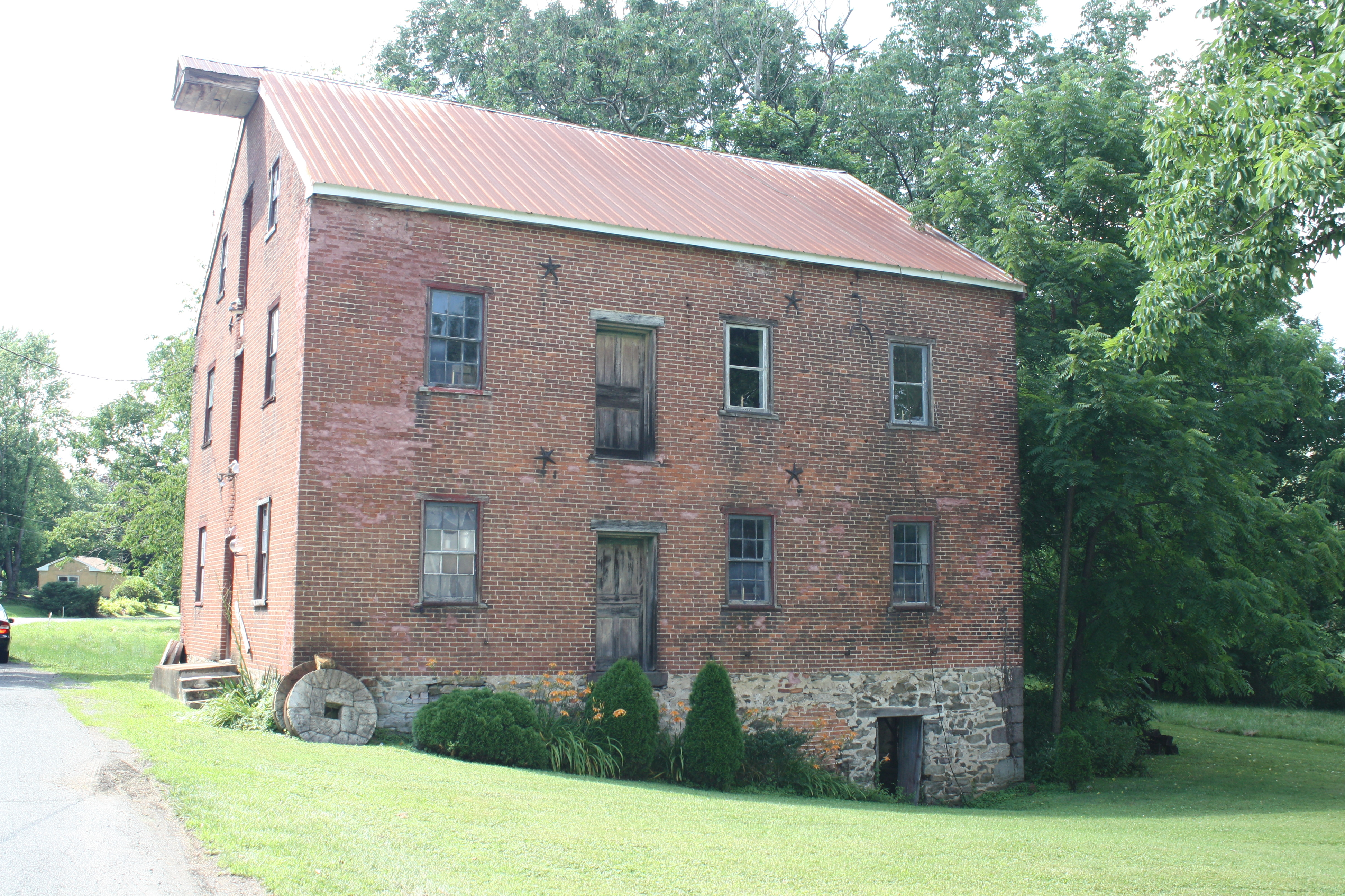 Nicholas Johnson Mill, also known as Schollenberger Mill, is a historic grist mill located in Colebrookdale Township, Berks County, Pennsylvania. Mill (1861).